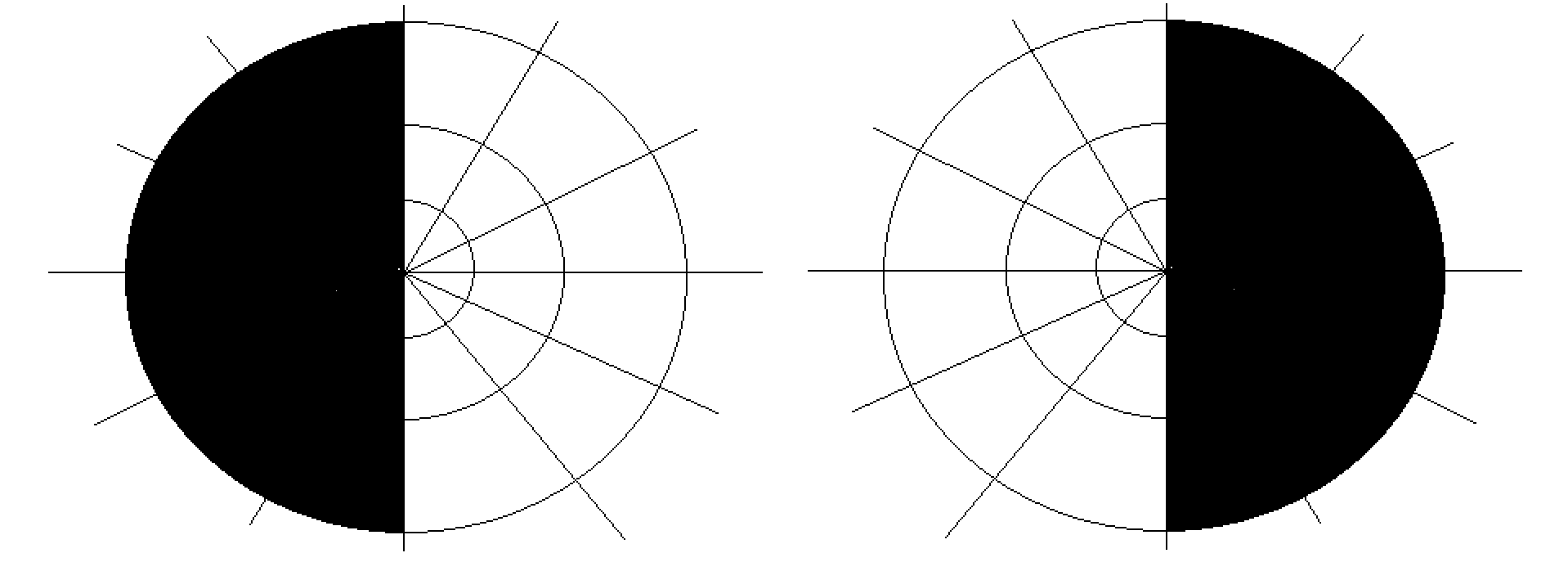 Goldmann visual field record showing a bitemporal hemianopia